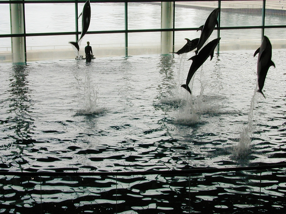 Shedd Aquarium, Chicago, Illinois, USA